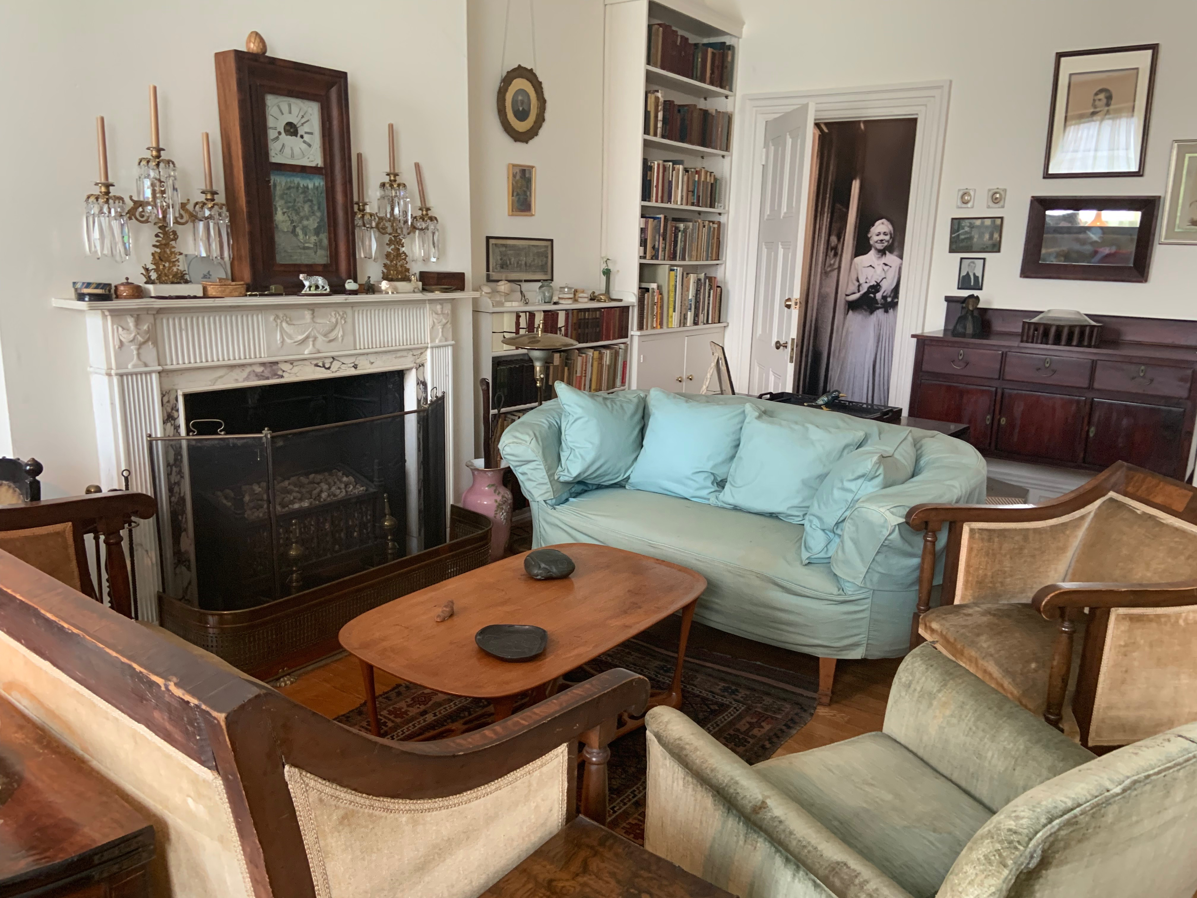 A recreation of Marianne Moore's living room at Rosenbach Museum and Library in Philadelphia.